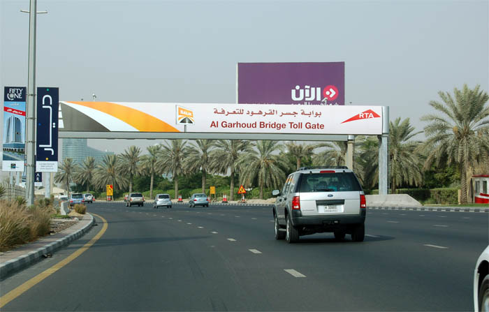 The Salik Toll Gate on the approach to Al Garhoud Bridge. The picture can also be found at